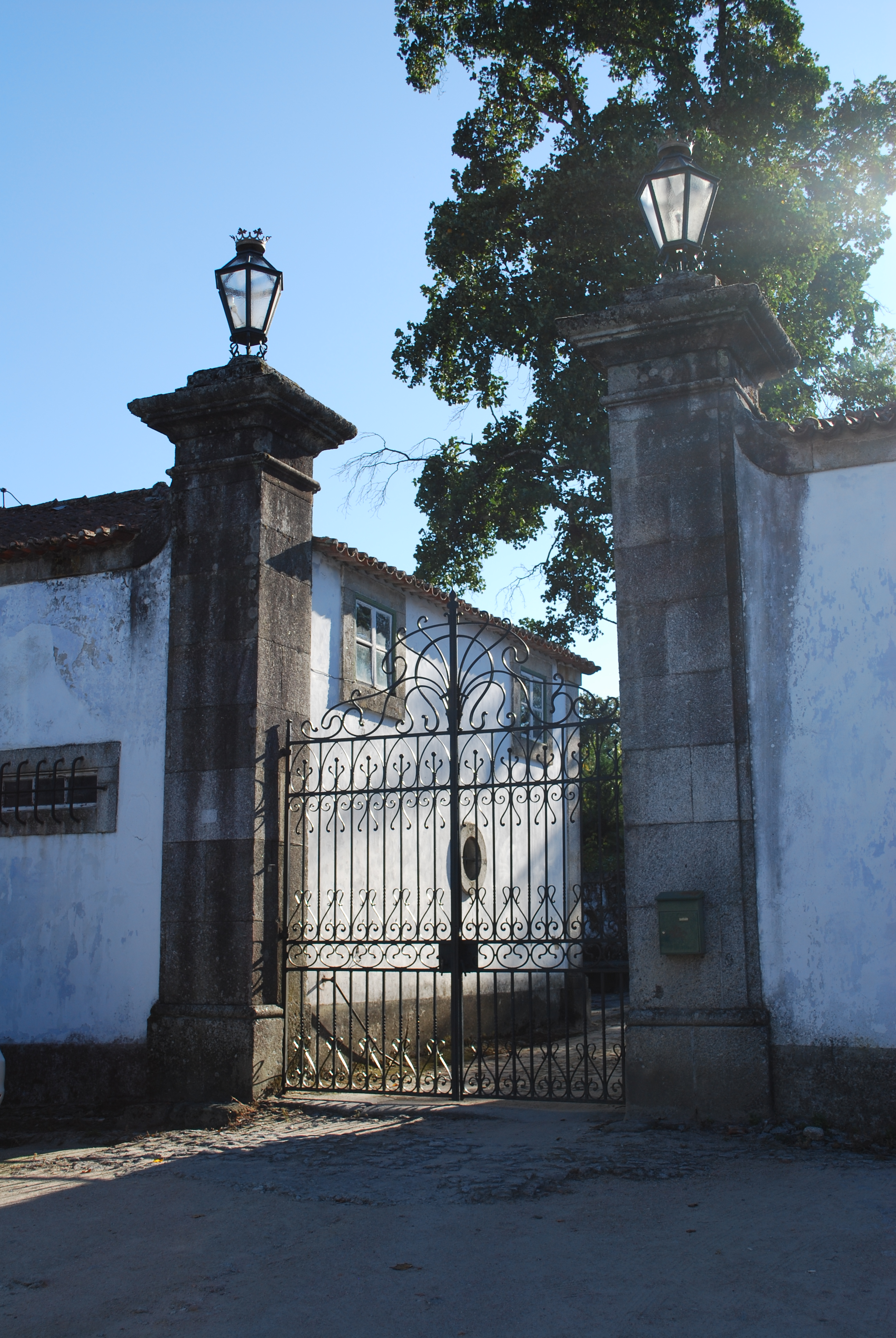 This file was uploaded for Wiki Loves Monuments in Portugal with the unique identifier 155791.